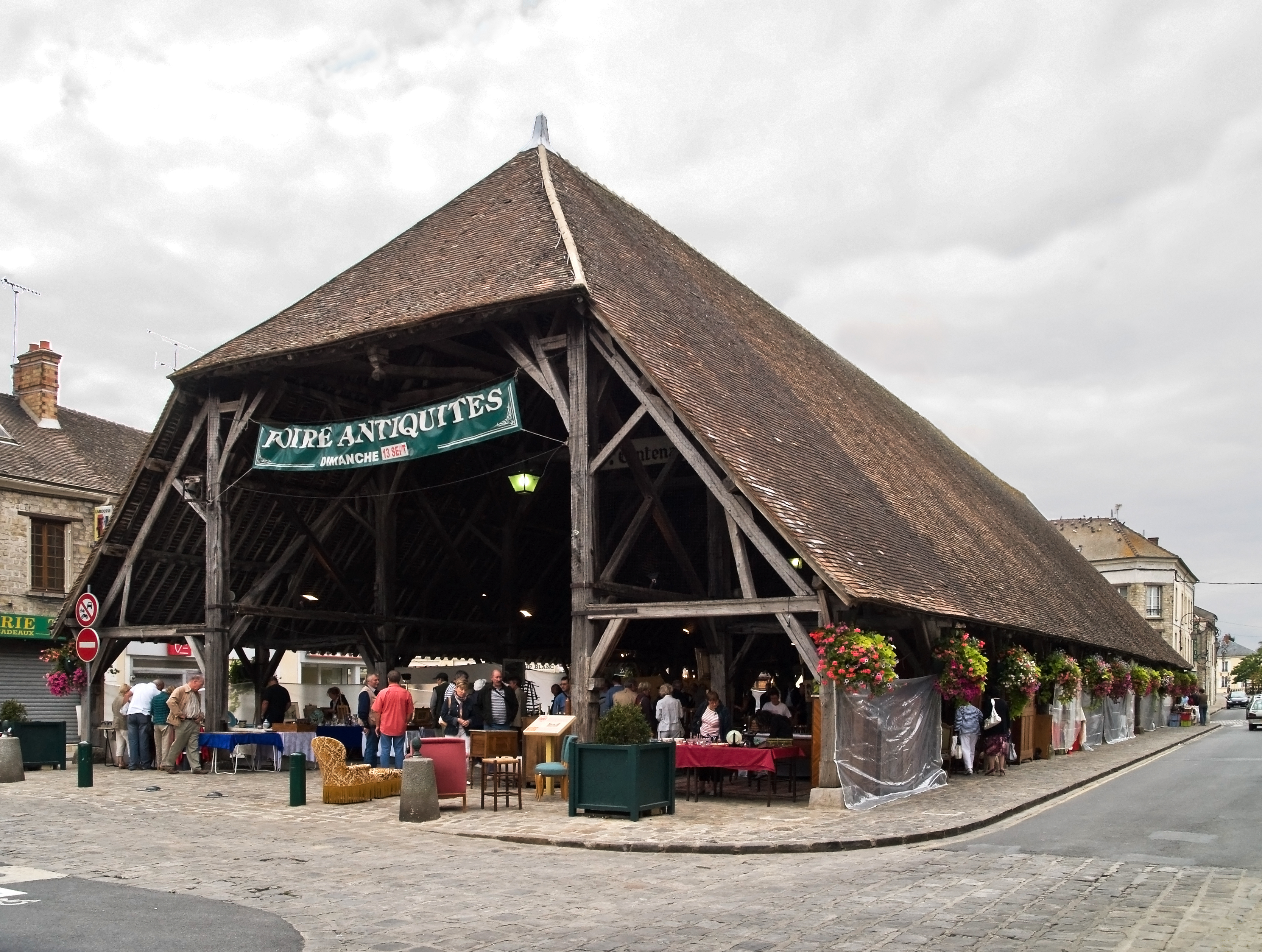 Milly-la-Forêt (Essone, France) - The market hall (15th century)